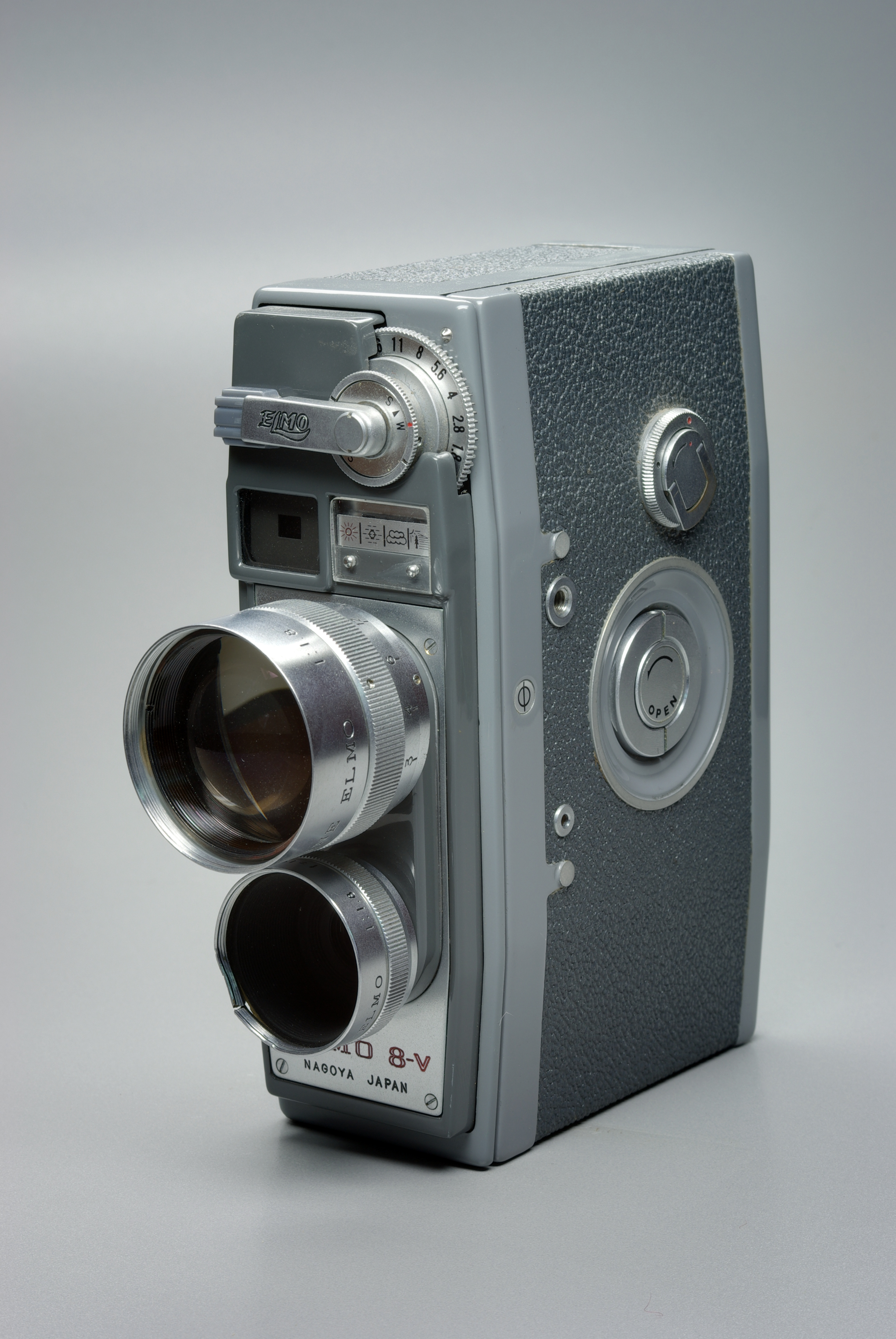 8 mm film camera Elmo 8V